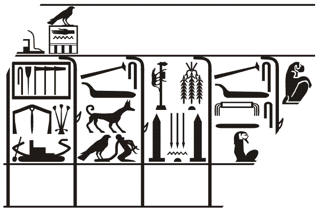 Year events of early Egyptian king Dewen (1st dynasty) as shown on a stone slab